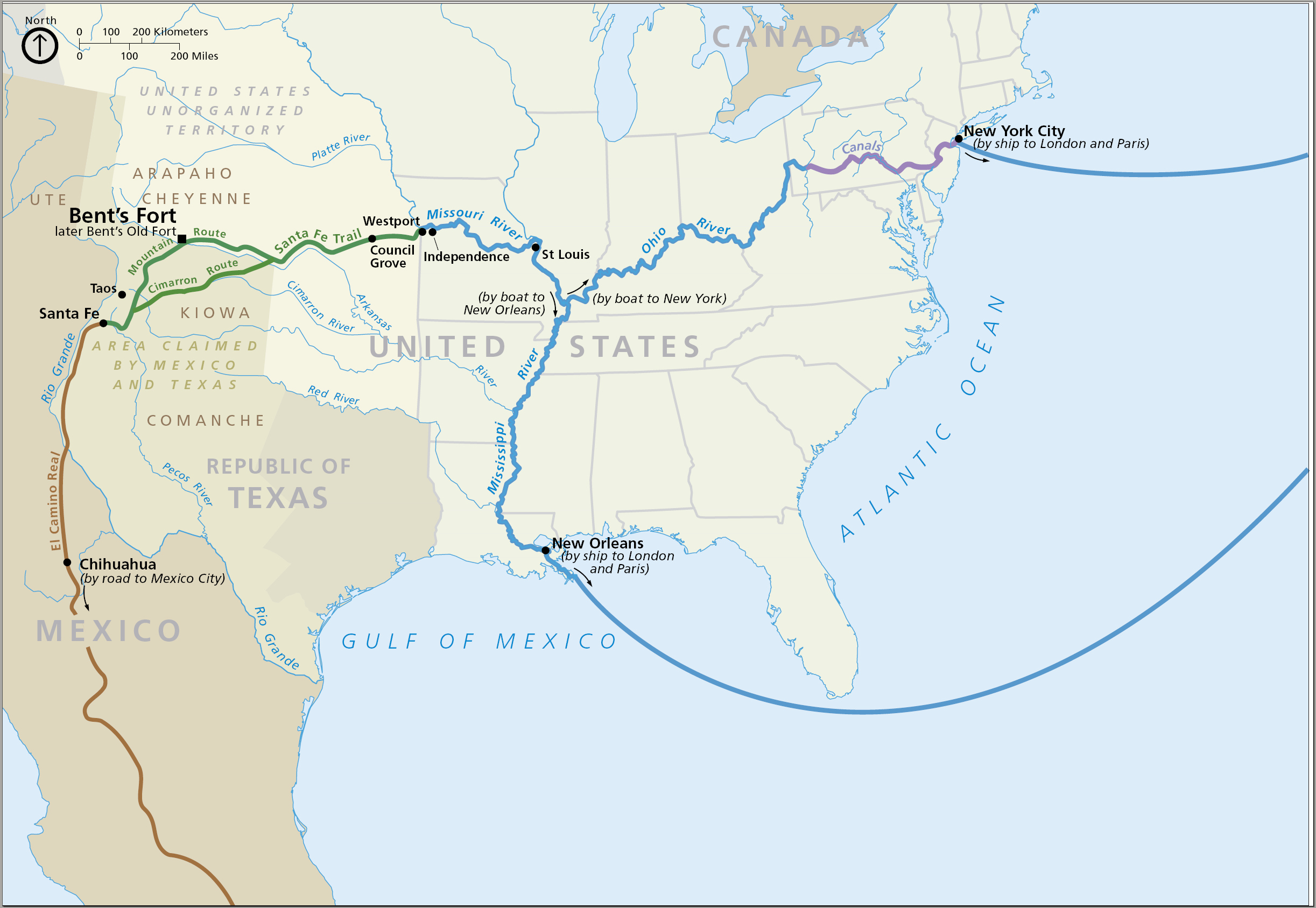 Location of Bent's Old Fort NHS